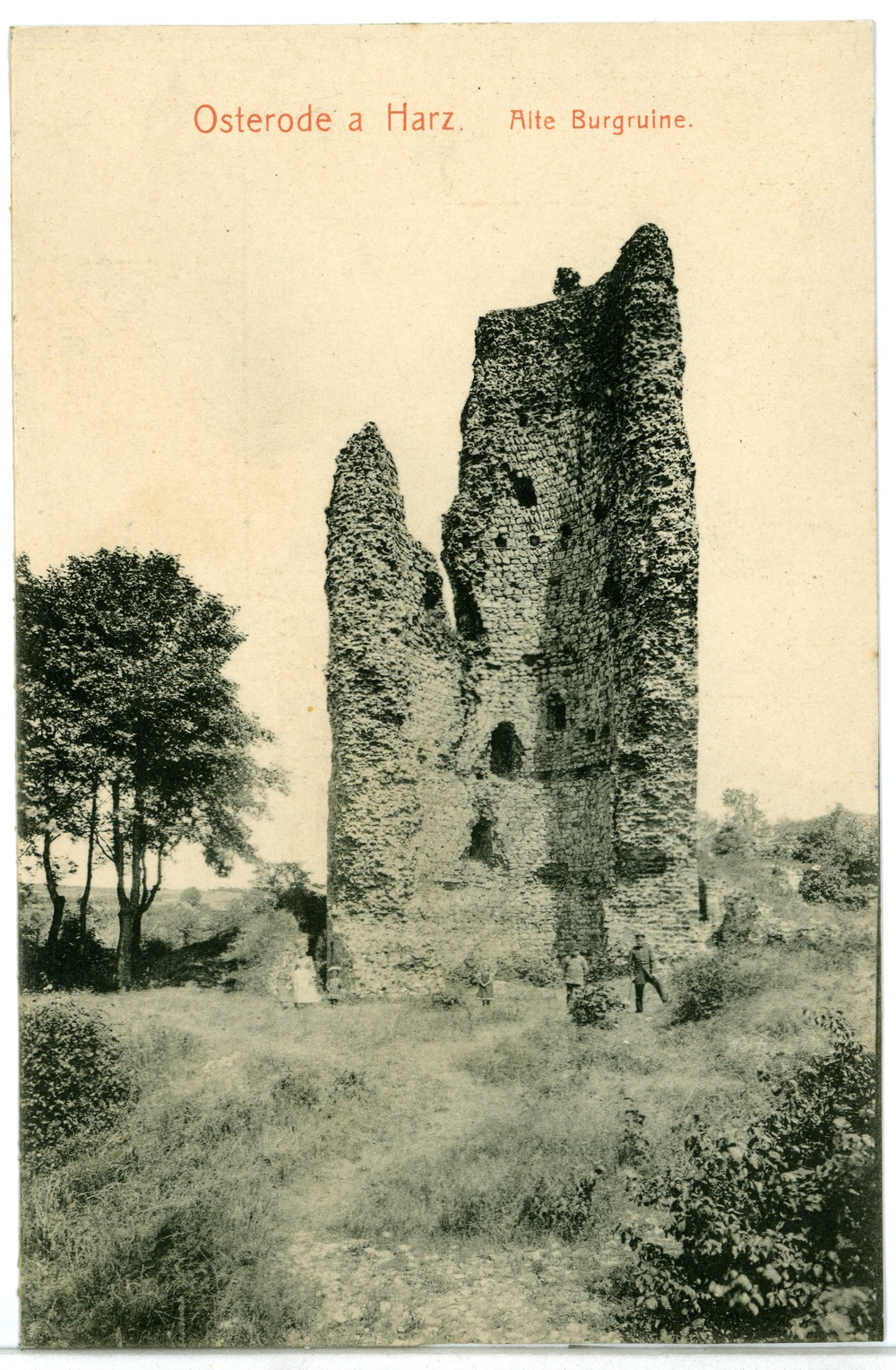 This postcard is from publisher Brück & Sohn in Meißen ( This postcard has a unique number 09255 and is available in a higher resolution at the publisher. This images was uploaded in a cooperation project between Wikipedians and the publisher.